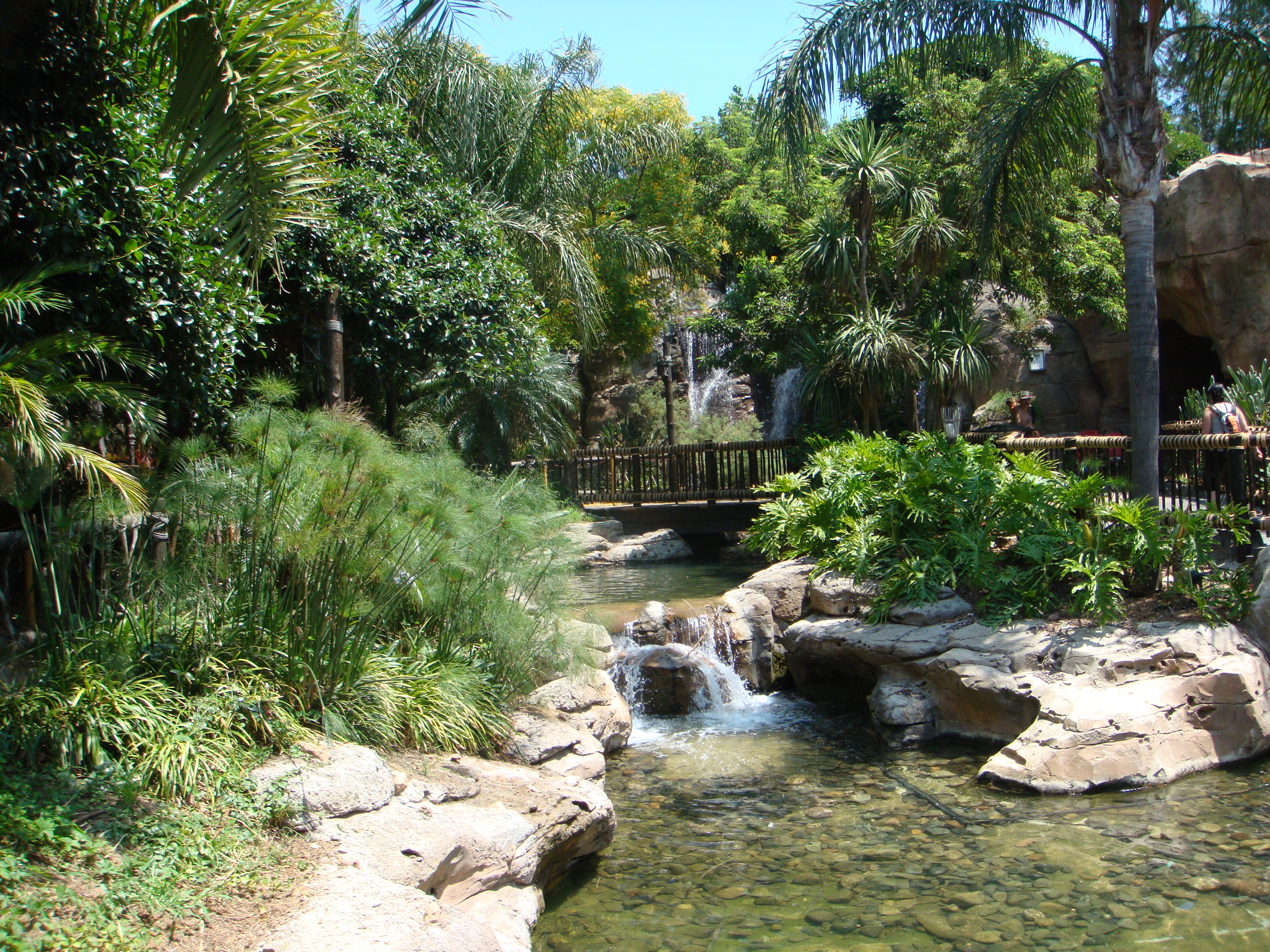 Polynesian view